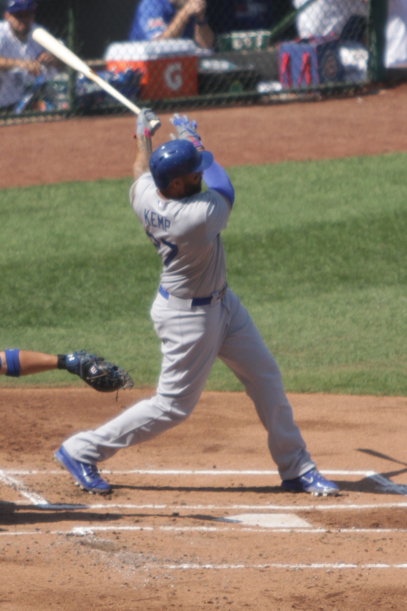 Matt Kemp connects on a home run for the 2014 Los Angeles Dodgers against the 2014 Chicago Cubs at Wrigley Field. Wellington Castillo is the catcher and Phil Cuzzi is the umpire. Hanley Ramirez is on deck. The 3 runs were the first runs of the game in support of Clayton Kershaw's 20th win of the season.